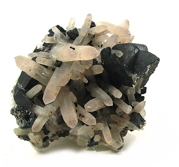 Tetrahedrite, Quartz Locality: Alimon Mine (Animon Mine), Huaron Mining District, San Jose de Huayllay District, Cerro de Pasco, Daniel Alcides Carrión Province, Pasco Department, Peru (Locality at ) Large, pyramidal, slate-gray crystals of tetrahedrite, to 3.5 cm in length, have grown in and around translucent, pastel gray, crystals of quartz which reach the same length. There does not appear to be any damage or contact except at the extreme periphery of this matrix specimen. The tetra cluster just floats up there, perfect as can be! Very rare in such aesthetic form! 9 x 7.8 x 5.5 cm